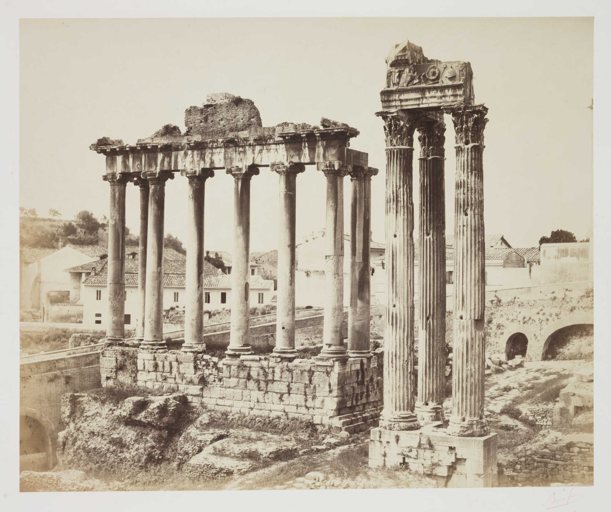 Update 23/5/13: These ruins are wrongly identified as the Temple of Concord. The building left is the Temple of Saturn, the columns right belong to the temple of Vespasian. Bisson Frères (Louis-Auguste Bisson (1814-1876) & Auguste-Rosalie Bisson (1826-1900); 'Temple de la Concorde, Rome', about 1860; Albumen print; 36.8 x 44.6cm Don McCullin is one of Britain’s greatest photographers. For his latest project he has photographed archaeological remains around the Mediterranean. On a recent visit to the Museum, to coincide with the opening of a major exhibition of his work, Don made a personal selection of photographs from the National Media Museum's collection, revealing how these sites were recorded by earlier photographers such as Francis Frith and Maxime Du Camp. Don McCullin: "These are quite famous these columns. Of course they're still there today and I think the background has very much been changed. It's so lovely to think that this person came up with the idea of recording these beautiful objects because we still don't know how many more years they will be allowed to stand before they start crumbling. The slightest tremor from an earthquake could topple this lot down and they would have to be reconstructed. They possibly are some of them reconstructed but they are beautiful and they are memorable. This is one of the most famous of all the images in Rome, apart from the Colosseum of course."